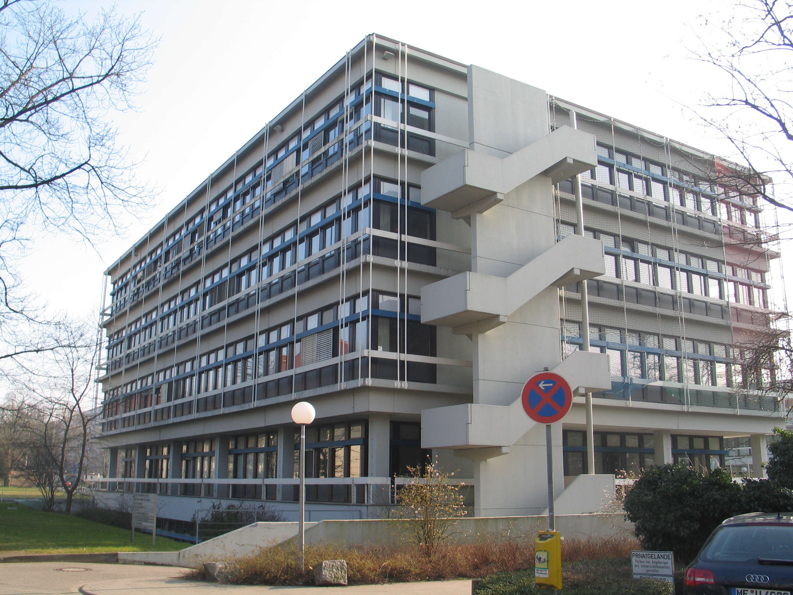 Building of the Steinbuch Centre for Computing and Faculty of Computer Science (KIT)